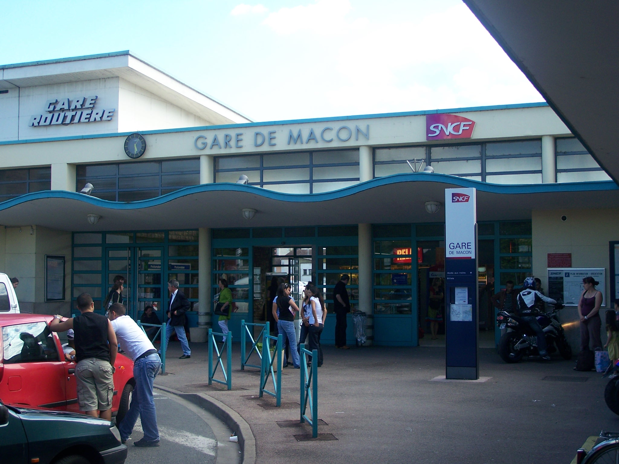 Front of the station of Mâcon, French commune in Saône-et-Loire.